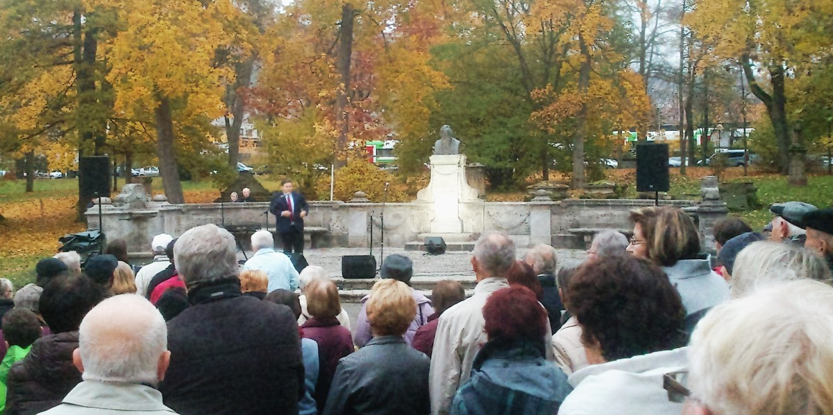 Inauguration ceremony of the refurbished Brahms memorial on 24 October 2015 under the 325th anniversary of the Meiningen Court Orchestra.